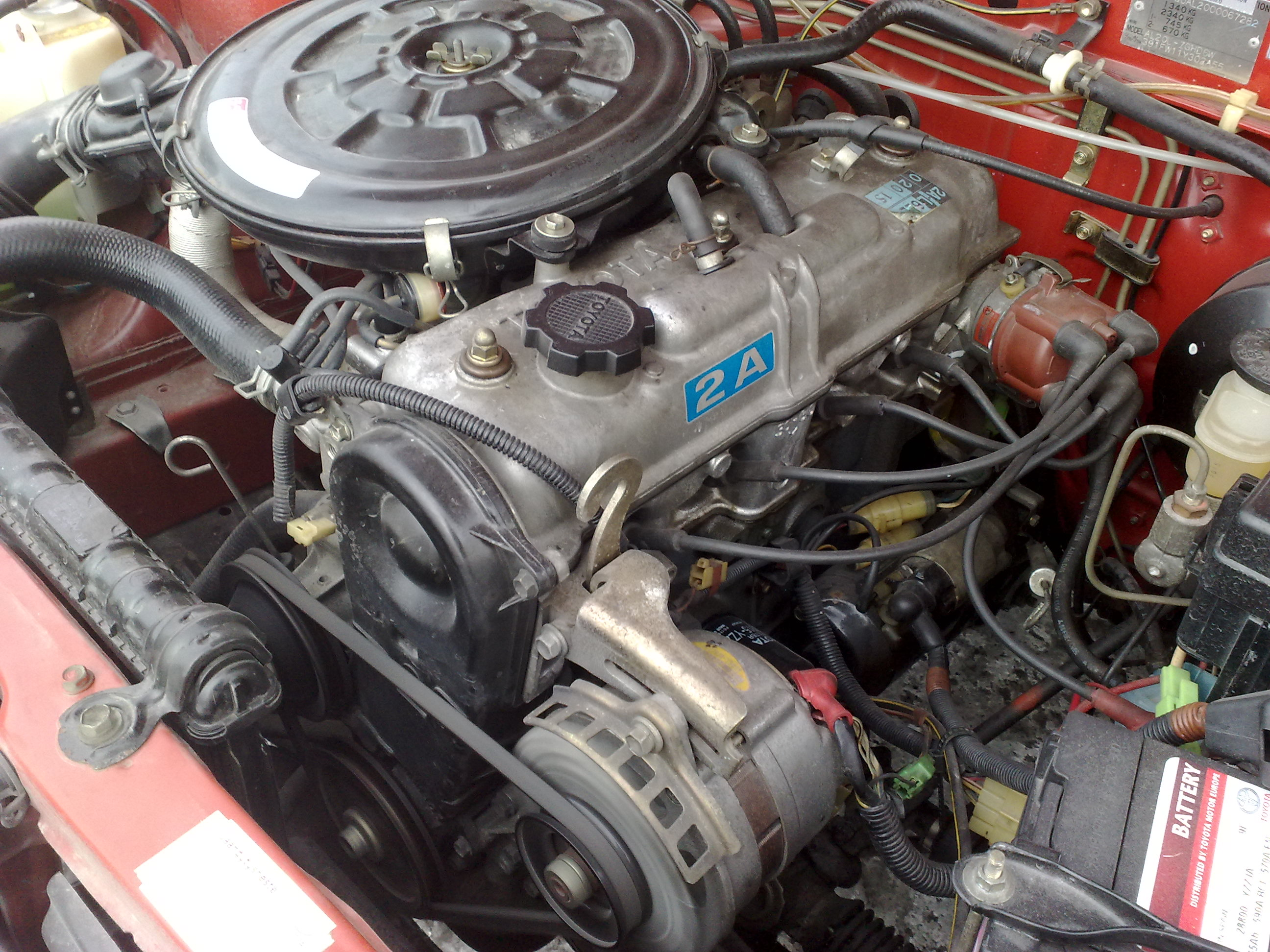 2nd generation 2A Toyota engine in '83 Toyota Tercel